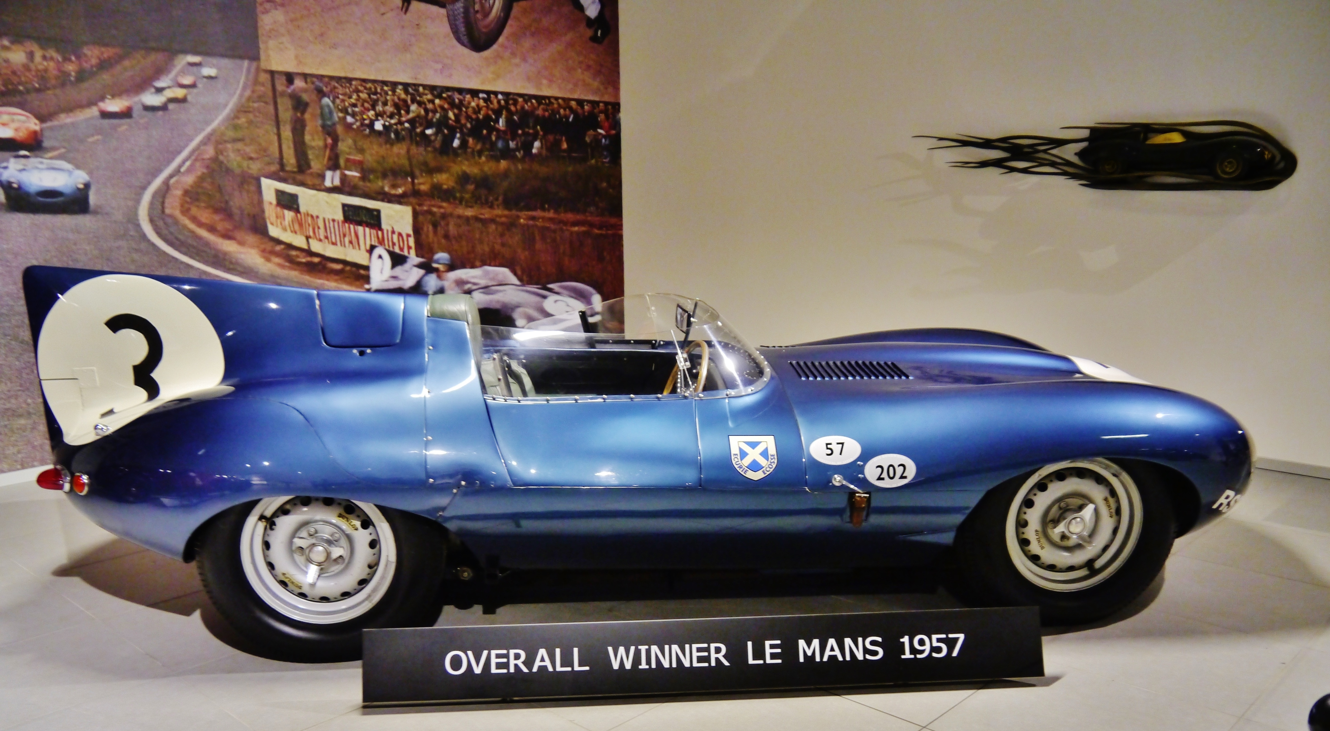 National Automobile Museum/Louwman Museum, The Hague, Province of South Holland, Netherlands